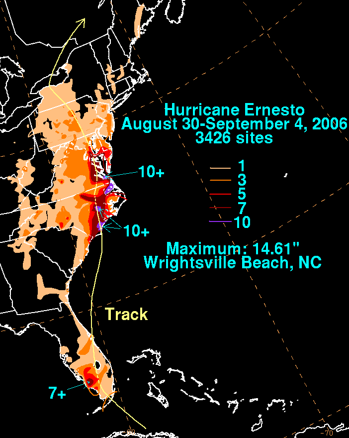 Storm total rainfall map of Hurricane Ernesto during August and September 2006.